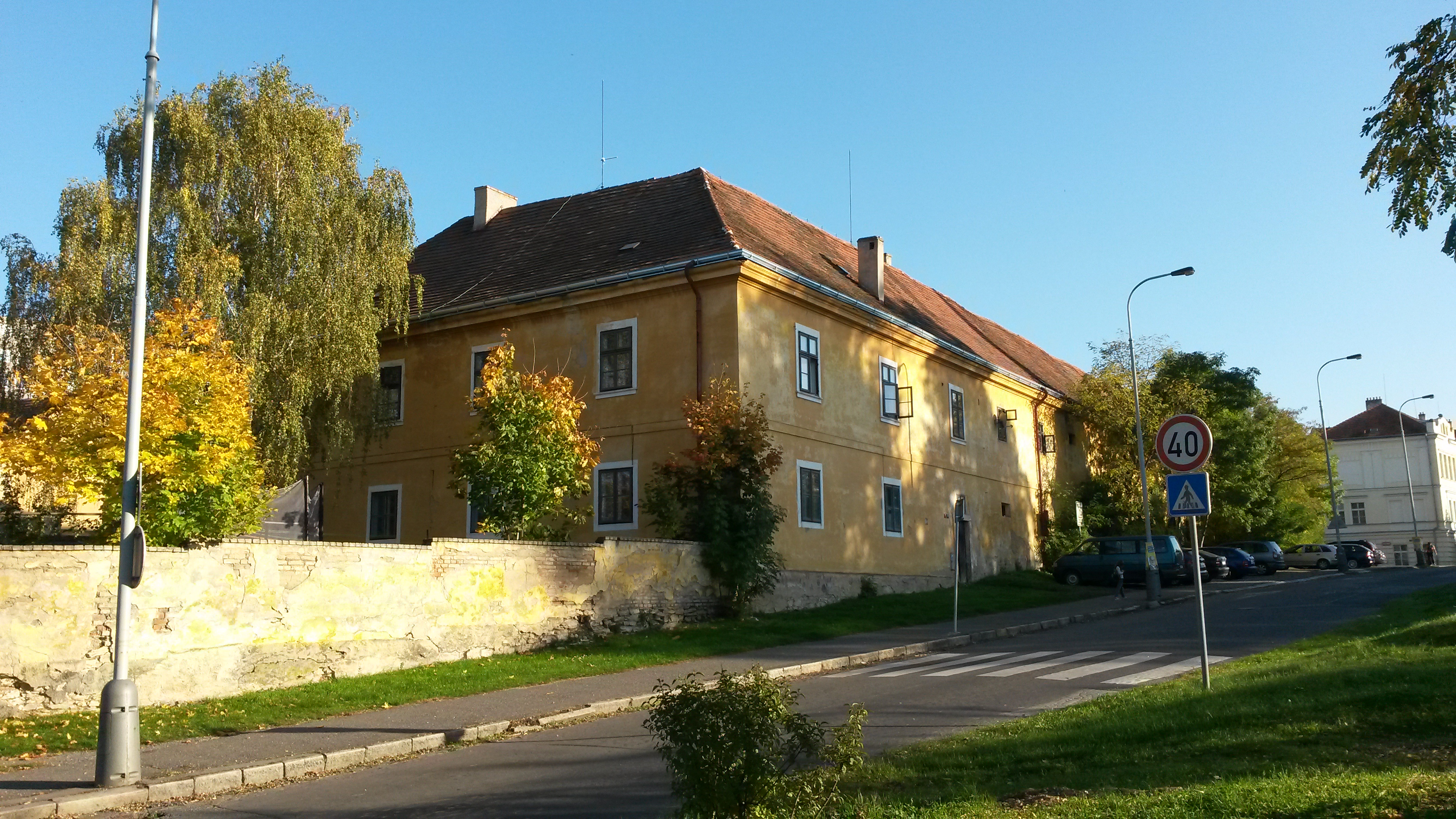 Court of the Knights of the Cross with the Red Star, Prague-Hloubětín, Hloubětínská Str. 5/28